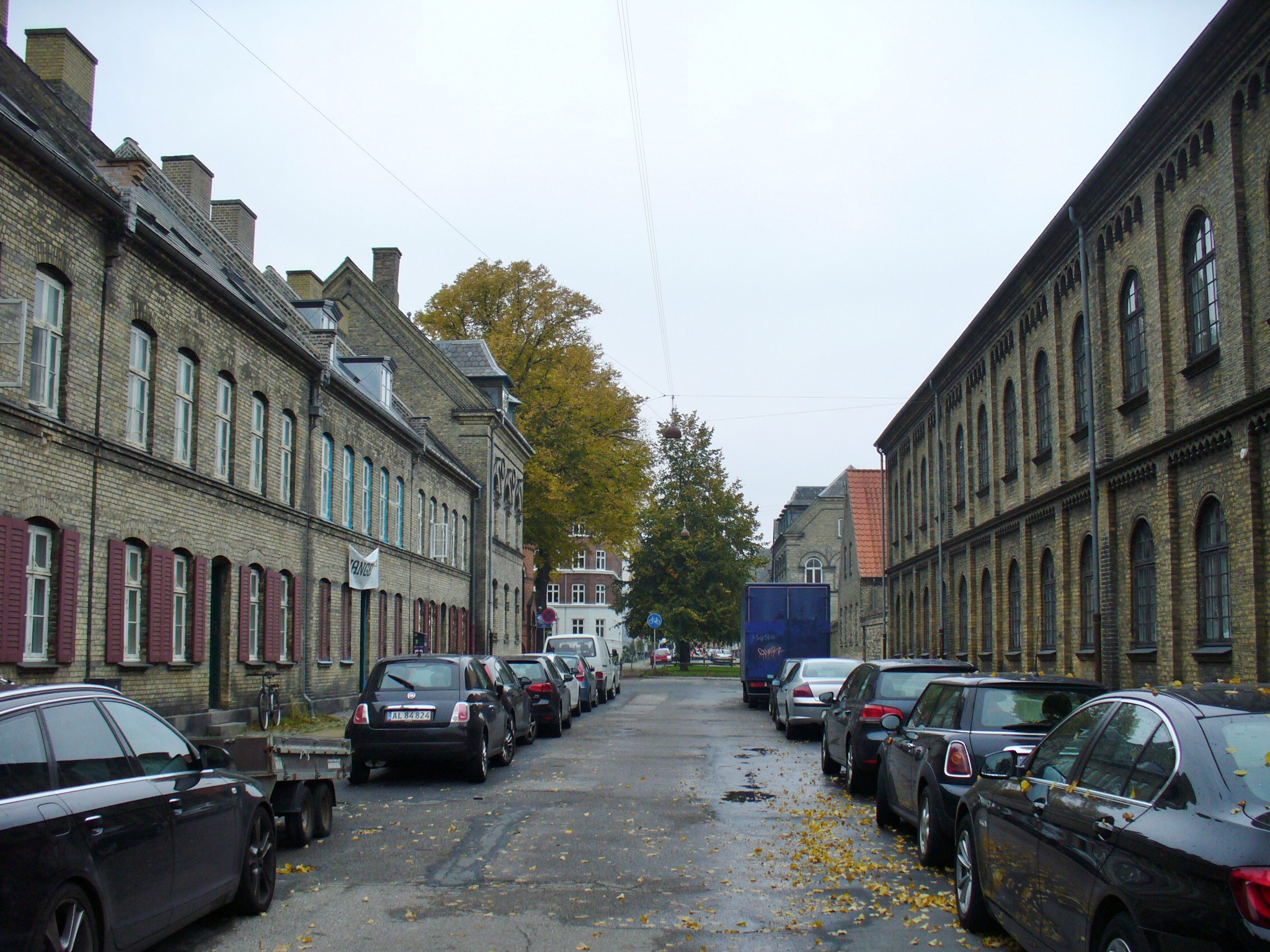 The street Gernersgade in Indre By in Copenhagen.